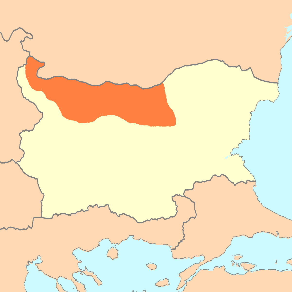 Danubian Fine Fleece Sheep areal of distribution